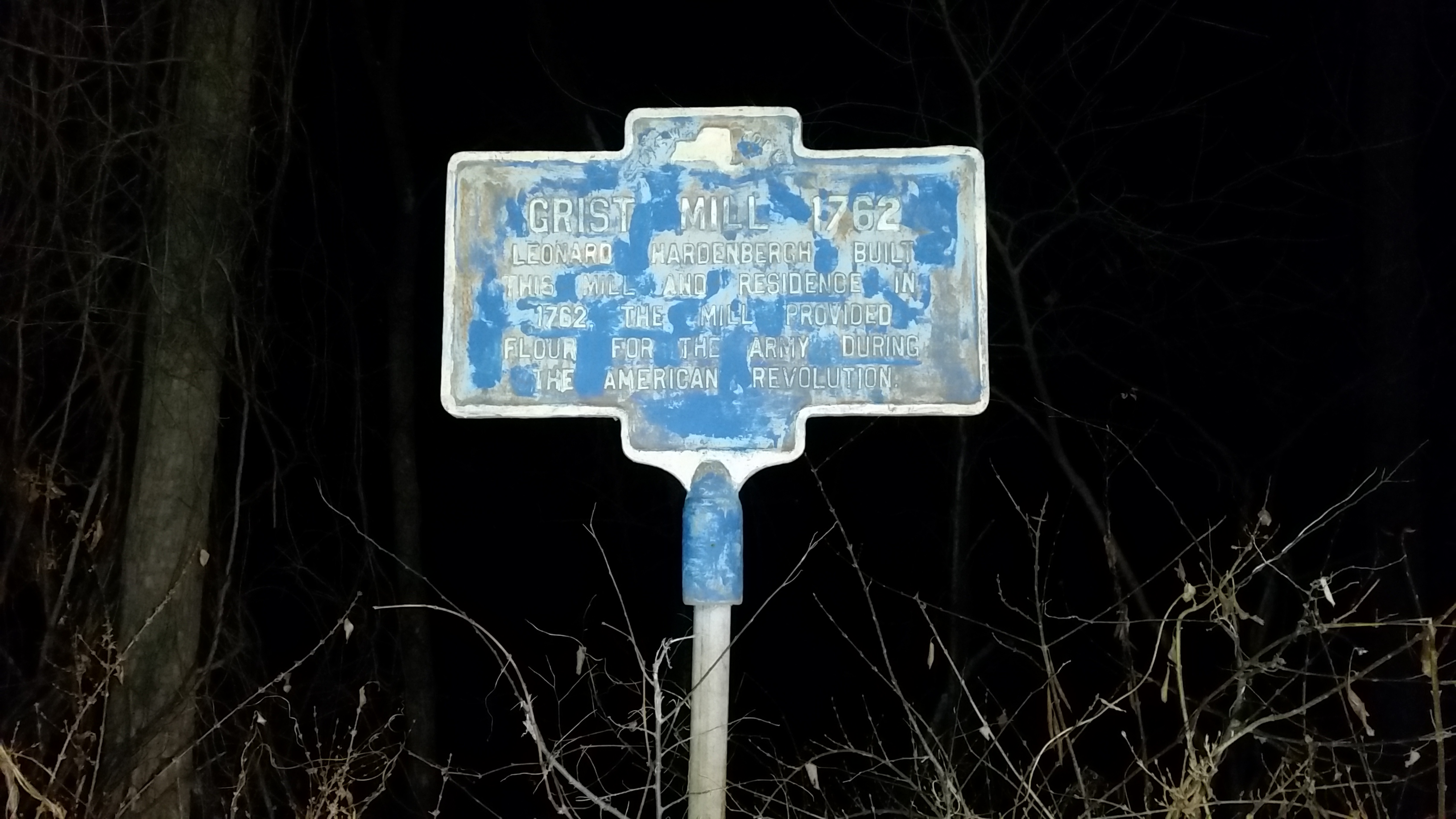 NY State historical marker for a Hardenbergh built grist mill in Marbletown, NY